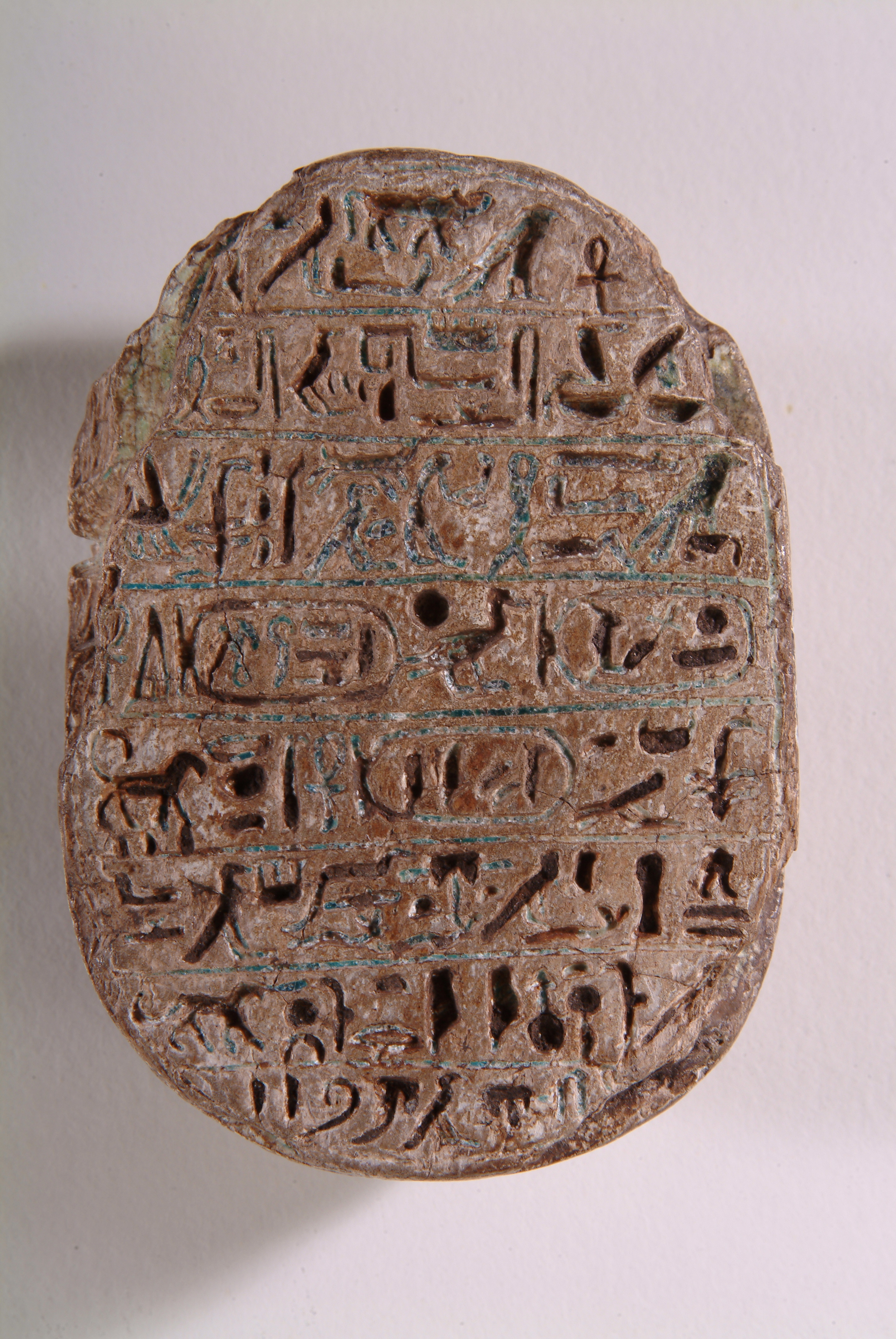 Large blue-glazed steatite scarab showing the famous lion hunt of Amenophis III (c.1388=1351/50 B.C.) and Queen Tiye, recording that in the first ten years of his reign the king killed 102 fierce lions with his own hands. One of over 120 versions of this scarab in existence. Donated by Benjamin Kent in 1969.